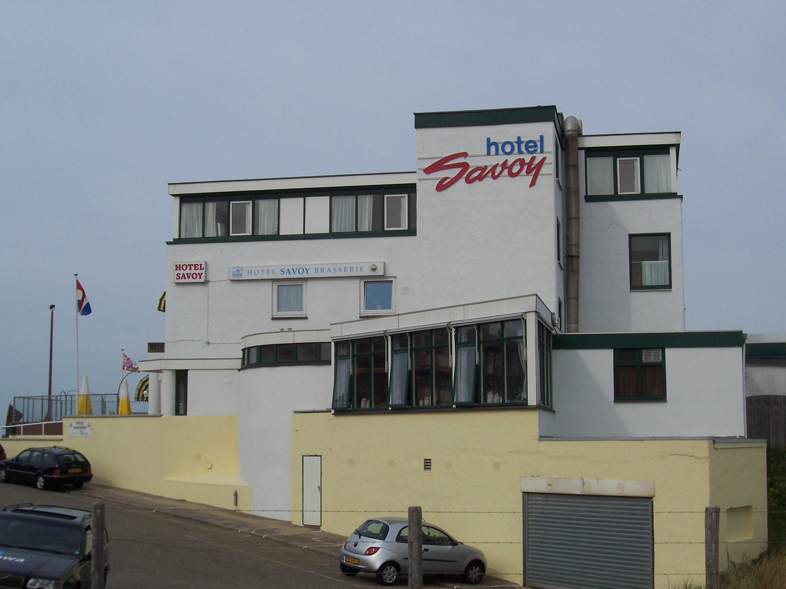 Hotel Savoy, Katwijk, the Netherlands, in the past and now: Villa Allegonda